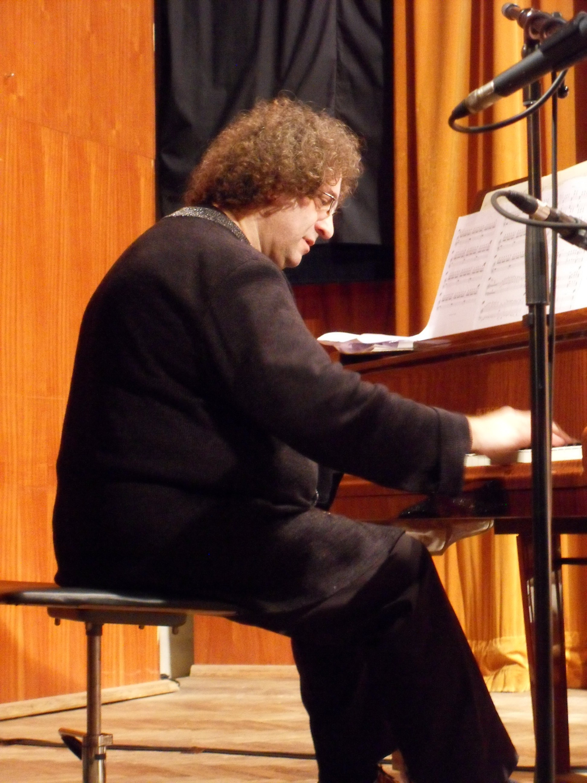 Daniel Forró, czech keyboardist, in Brno, Czech Republic